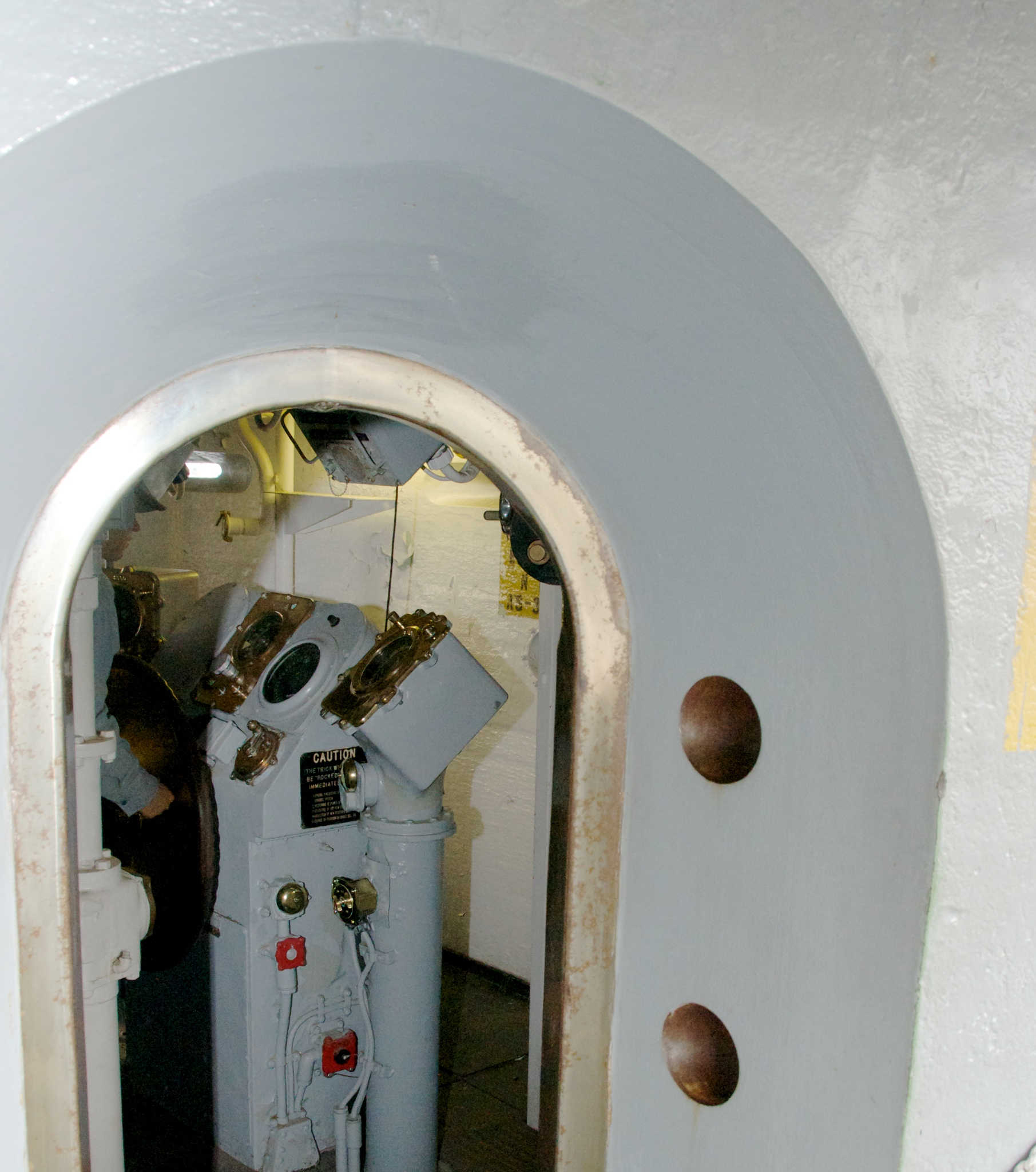 Located in the center of the U.S.S. New Jersey's bridge, the Conning Tower, AKA "battle conn", contained the equipment required to "conn" the ship. This includes a ship's wheel, the ship's RPM indicator, engine telegraphs, and communications gear. A mannequin is visible in this photo. A portion of a small viewing port is visible at the back of the space. The outer shell of the Conning Tower consists of 17 inches of solid steel armor, designed to resist the impact of a 1-ton shell. The door for this entrance (not shown) weighs more than a ton. Seen at the Battleship New Jersey, on the Delaware River in Camden, New Jersey.